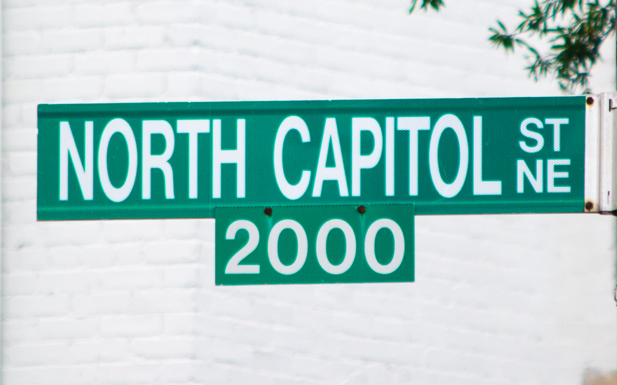 Sign at the 2000 block of North Capitol Street in Washington, D.C., in the United States.